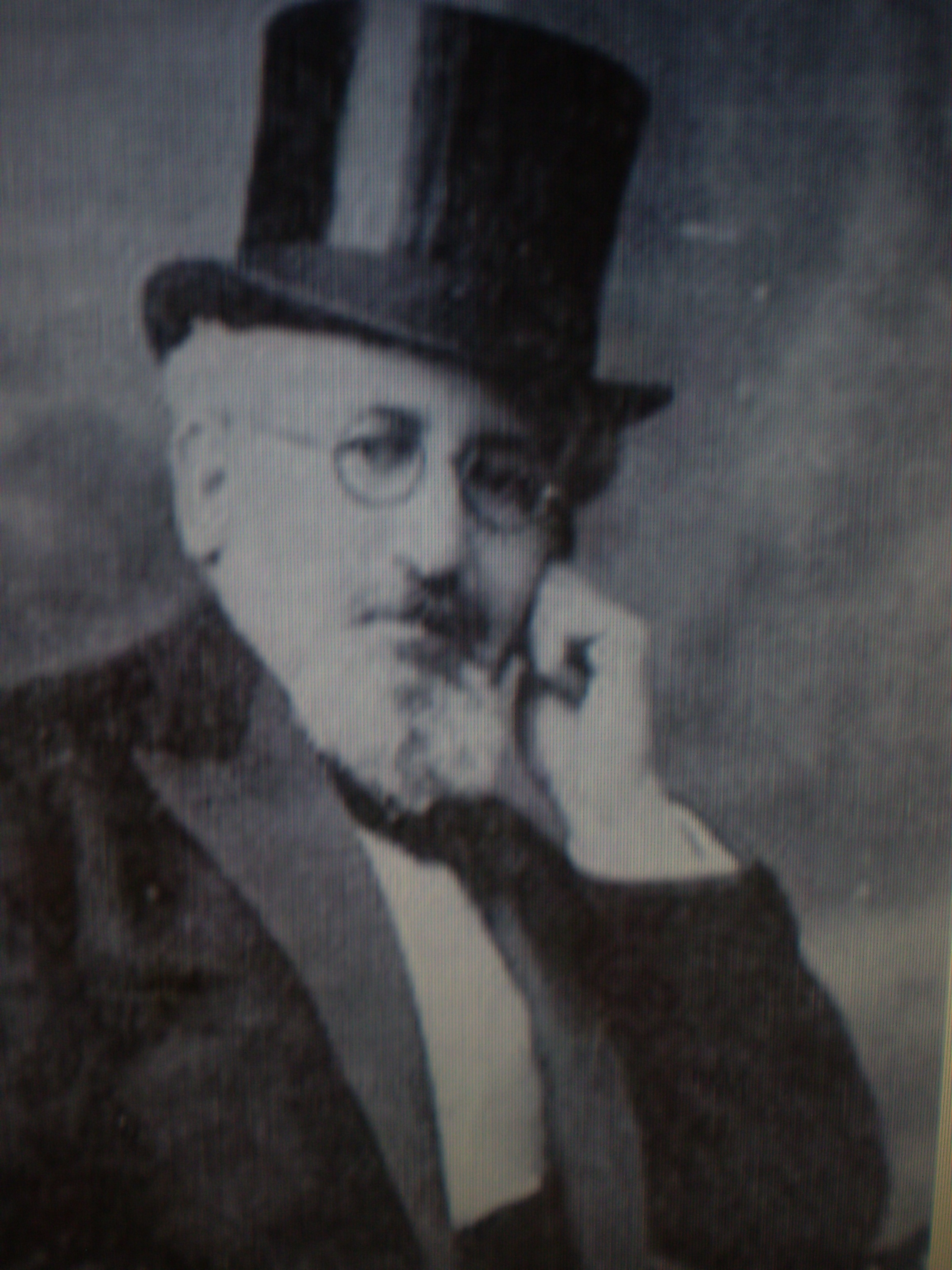 Sabetai Djaen, rabbi and playwright , chief rabbi of Bitolj in Macedonia, one of the leading figures of the Sephardic Jewry